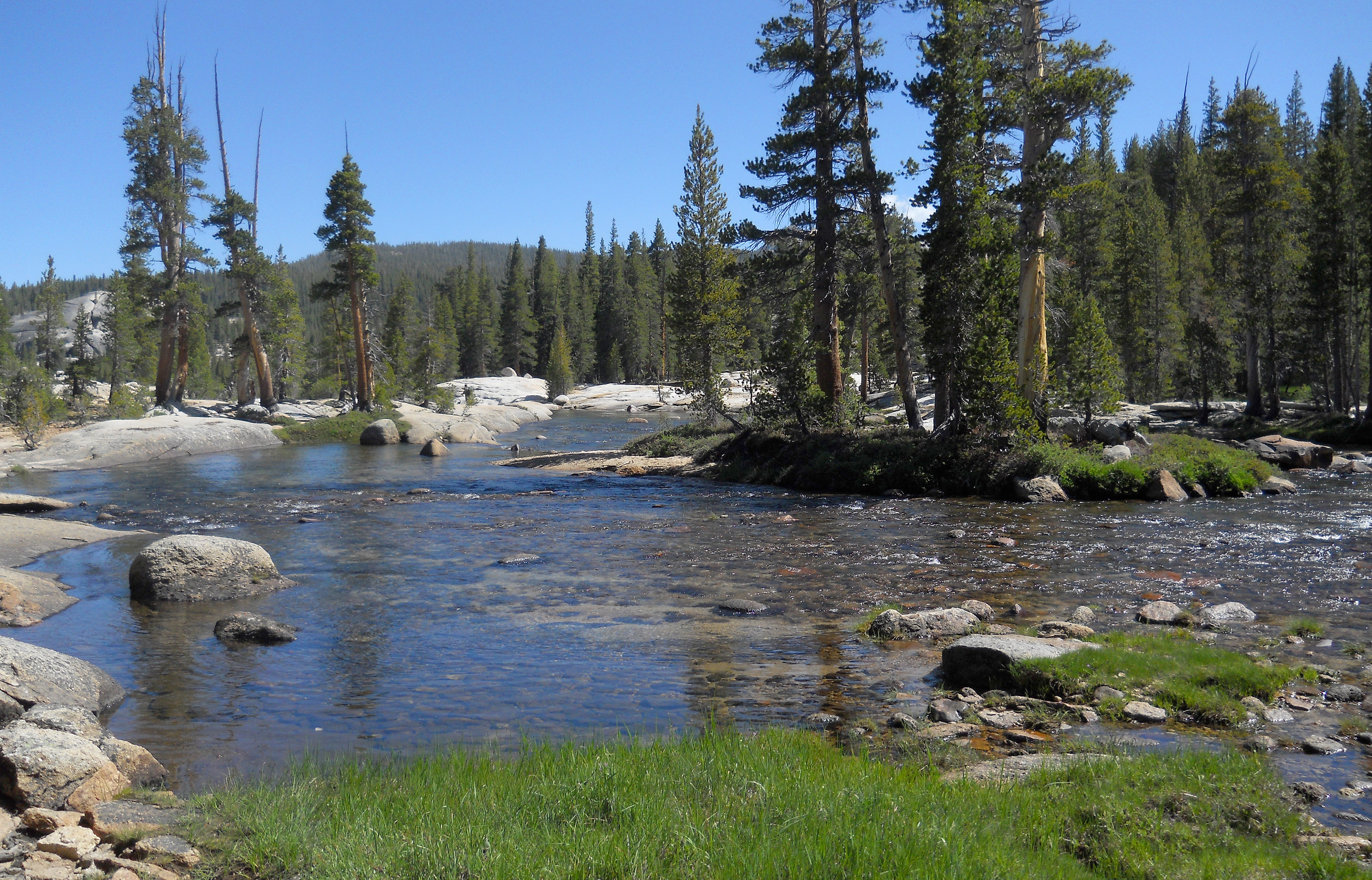 Tuolumne River NW of Tuolumne Meadows, Yosemite